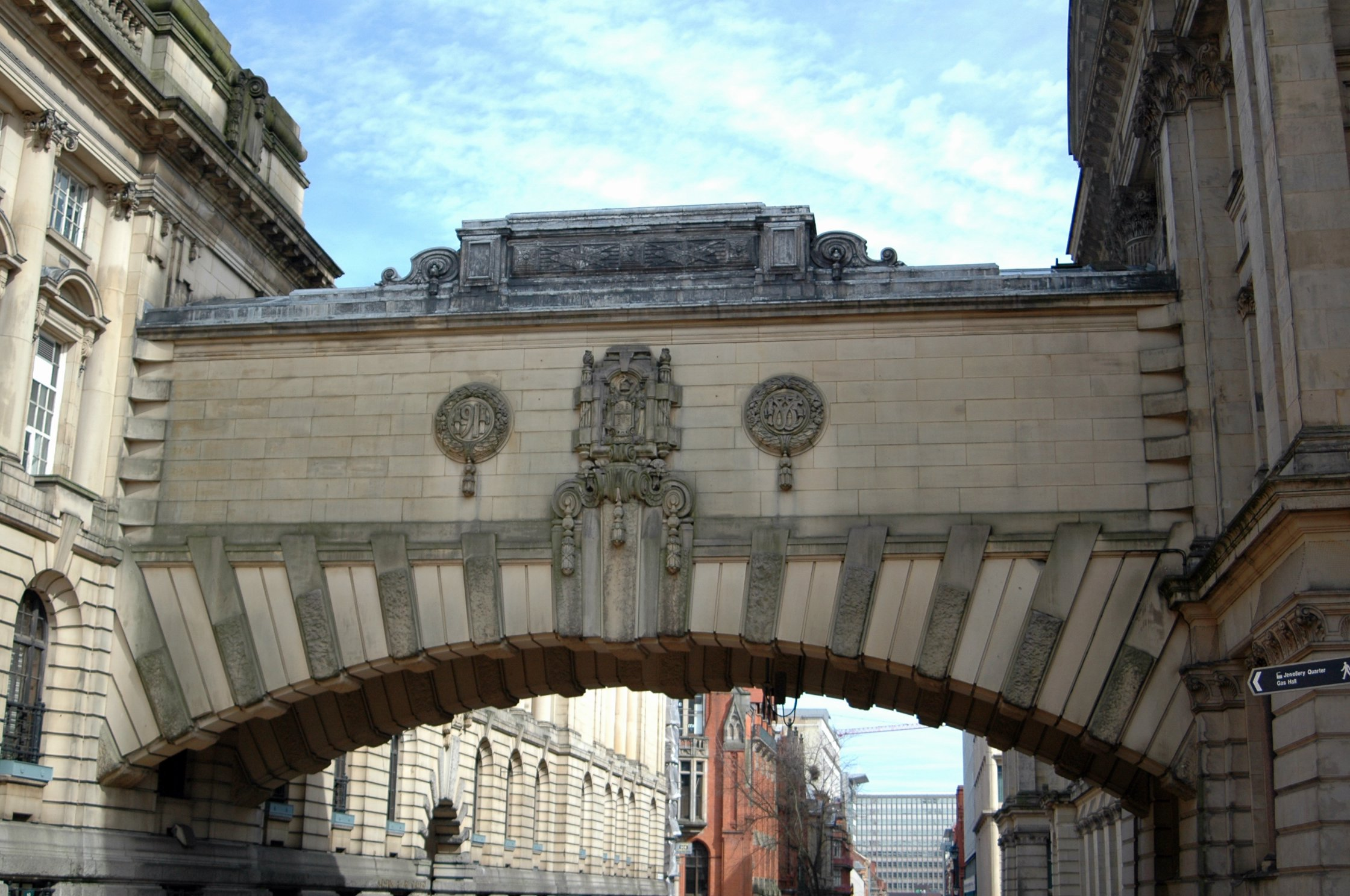 This is the elaborate stone link bridge joining the original, 1885, Birmingham Museum & Art Gallery, and the 1911 Art Gallery Extension (the latter including the Gas Hall), above Edmund Street from Chamberlain Square, Birmingham, England. Note dates in crests.